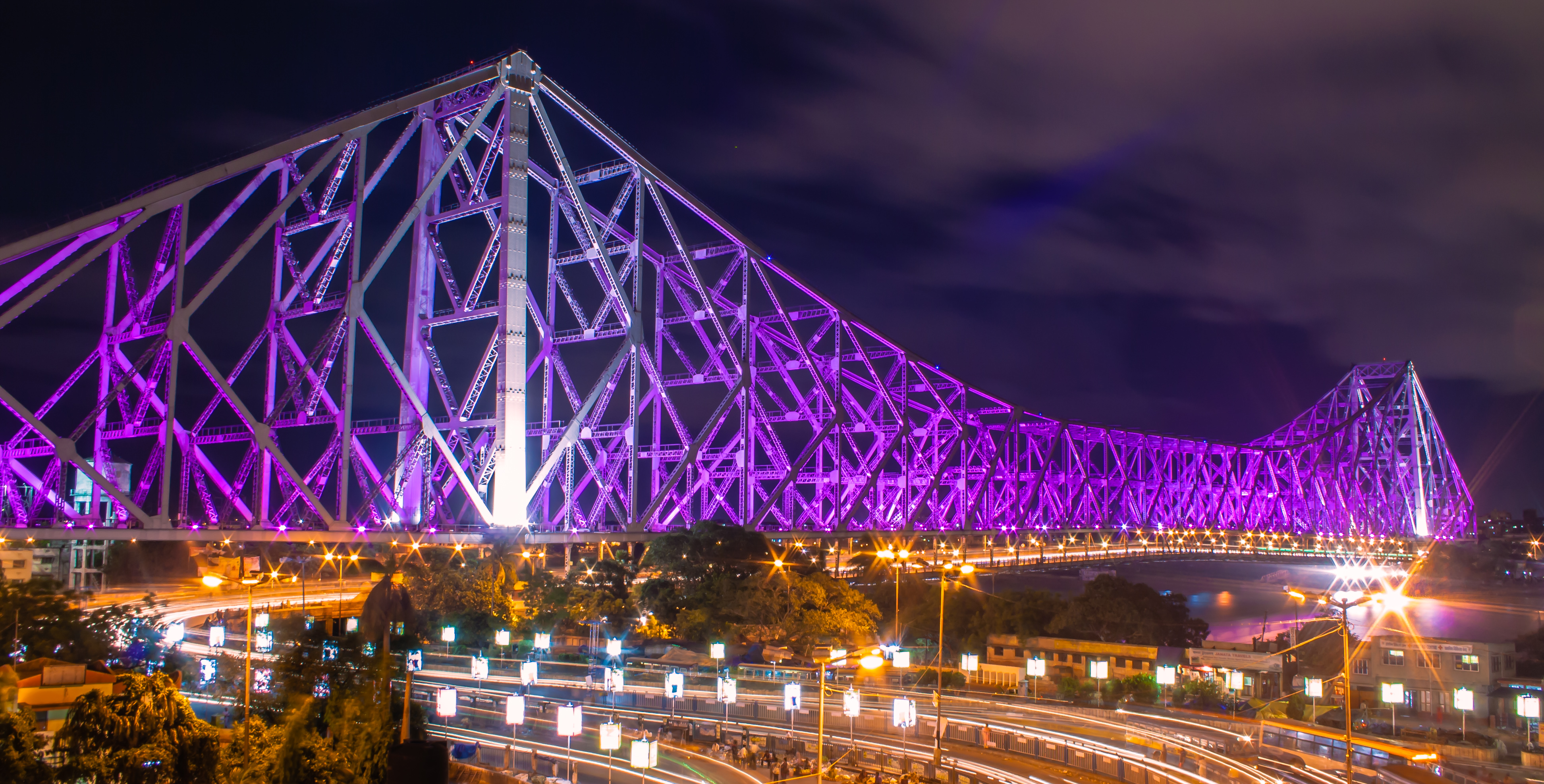 Howrah amidst Bankim Setu